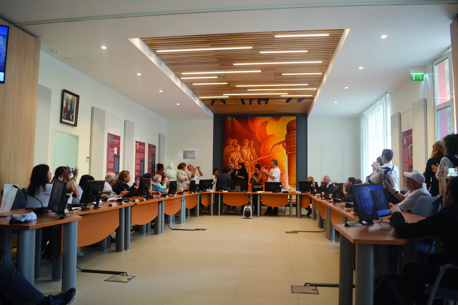 Port-de-Bouc-2